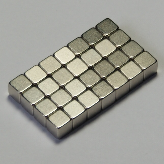 28 nickel-plated neodymium magnet cubes, 0.5 cm edge length each.